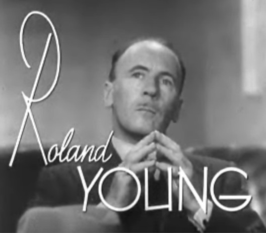 Cropped screenshot of Roland Young from the trailer for the film Topper Takes a Trip